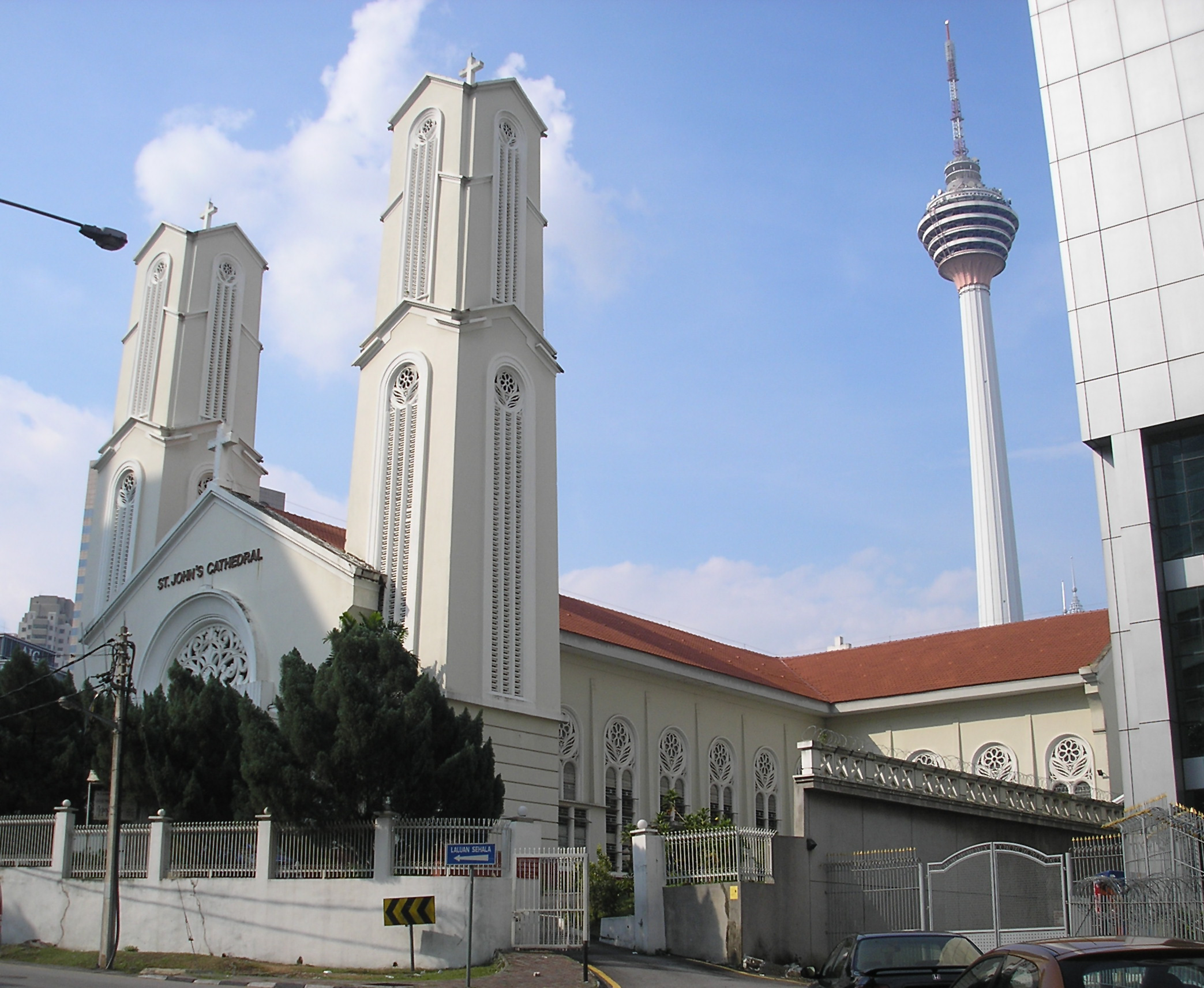 Cathedral of St. John The Evangelist at Jalan Bukit Nanas (Bukit Nanas Road), in the Golden Triangle, Kuala Lumpur, Malaysia. The Kuala Lumpur Tower is visible in the background.